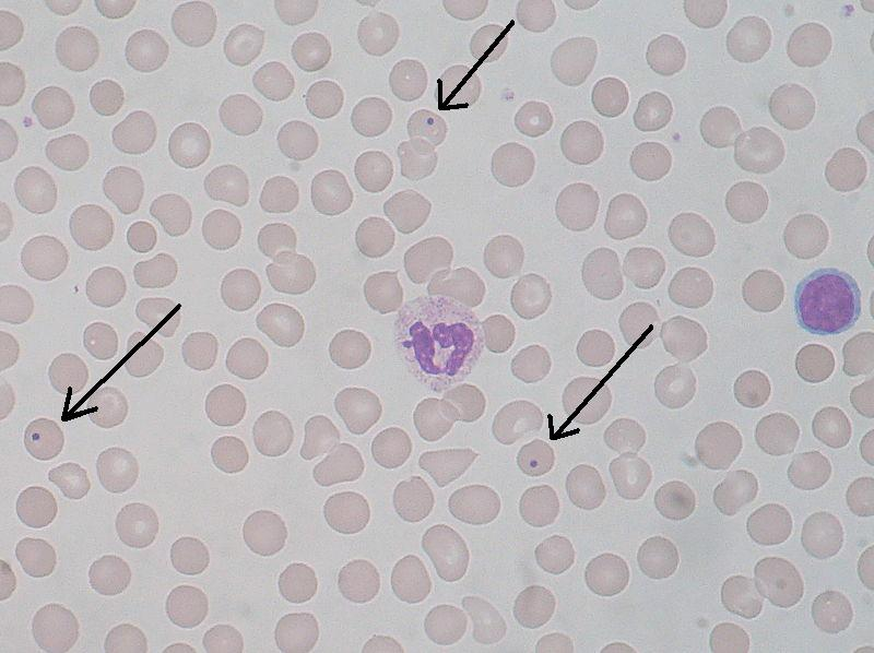 Howell-Jolly bodies indicated by the arrows